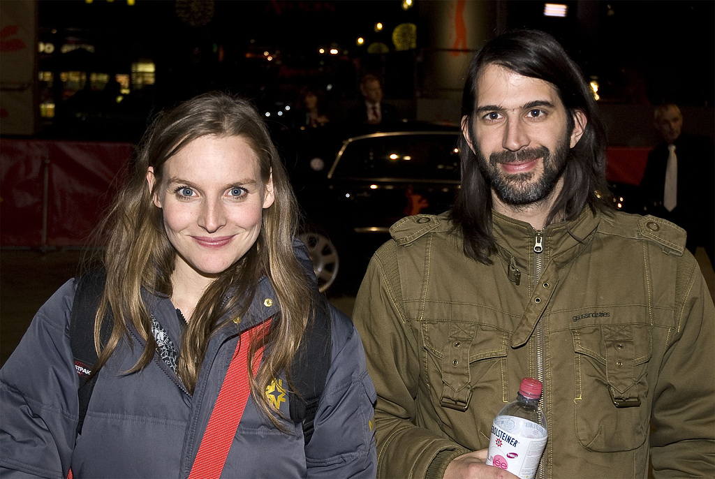 Judith Holofernes, Pola Roy (2 of 4 of "Wir sind Helden", a German Band), Opening of the 58th Berlin International Film Festival